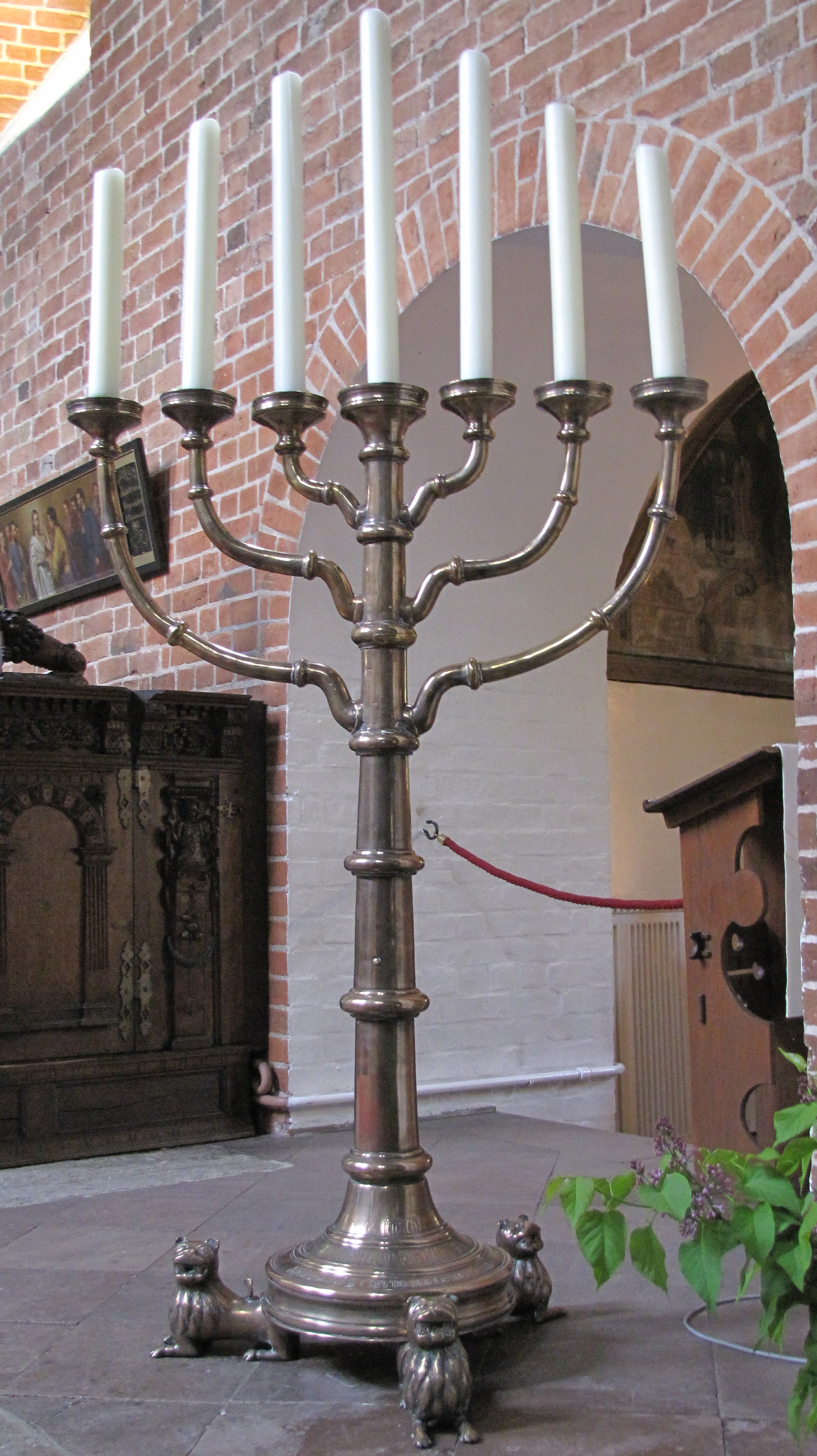 Candelabra in St. Nicolai (Mölln), germany